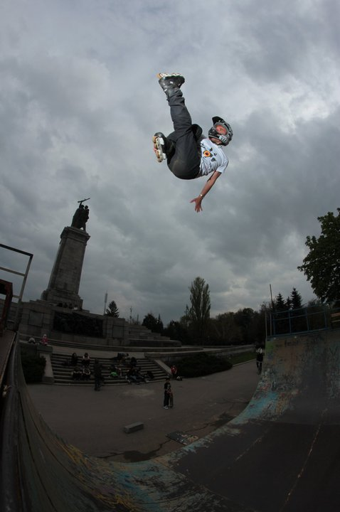 Liu Kang; photo by Bogdan Plukov